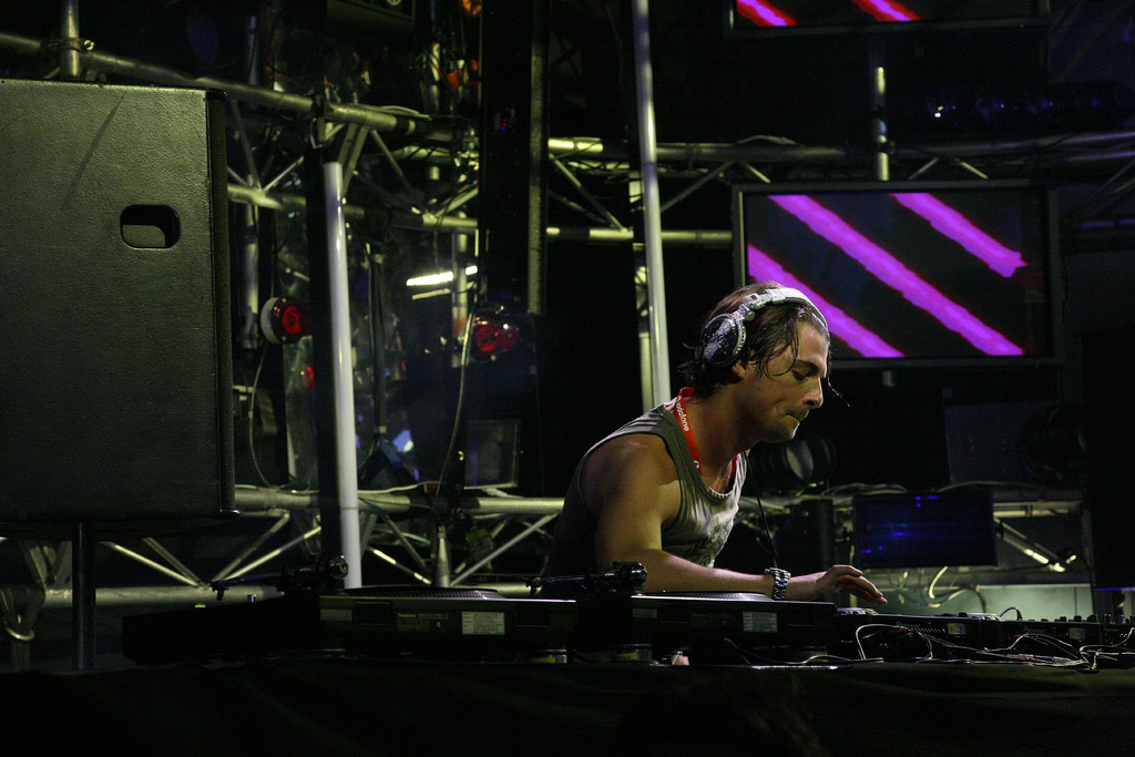 Axwell live